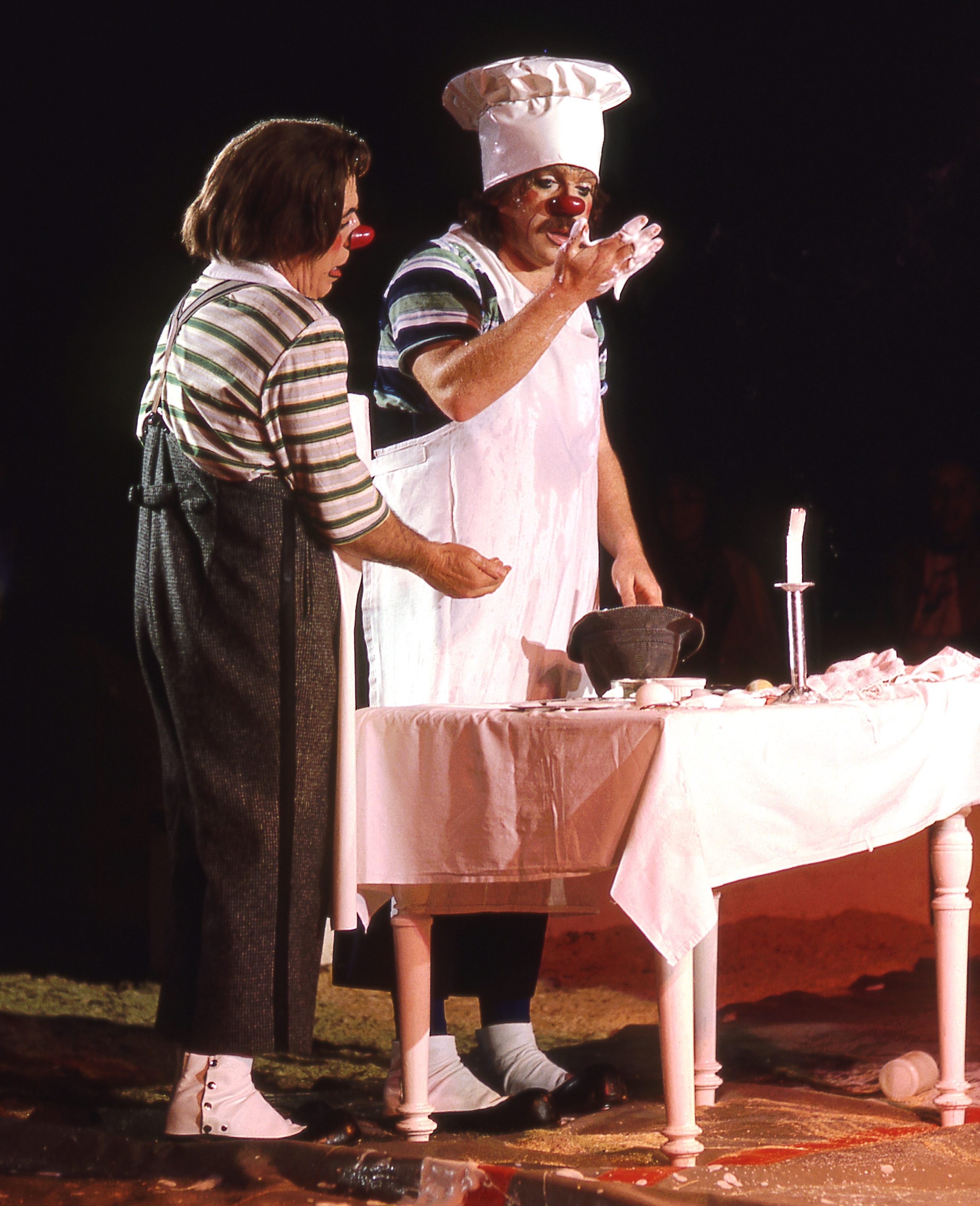 Circus Roncalli founder/owner Bernhard Paul (right) pictured as a clown during a show of his circus in June 1984 at Düsseldorf in Germany. Scan of a Kodachrome 64 slide.